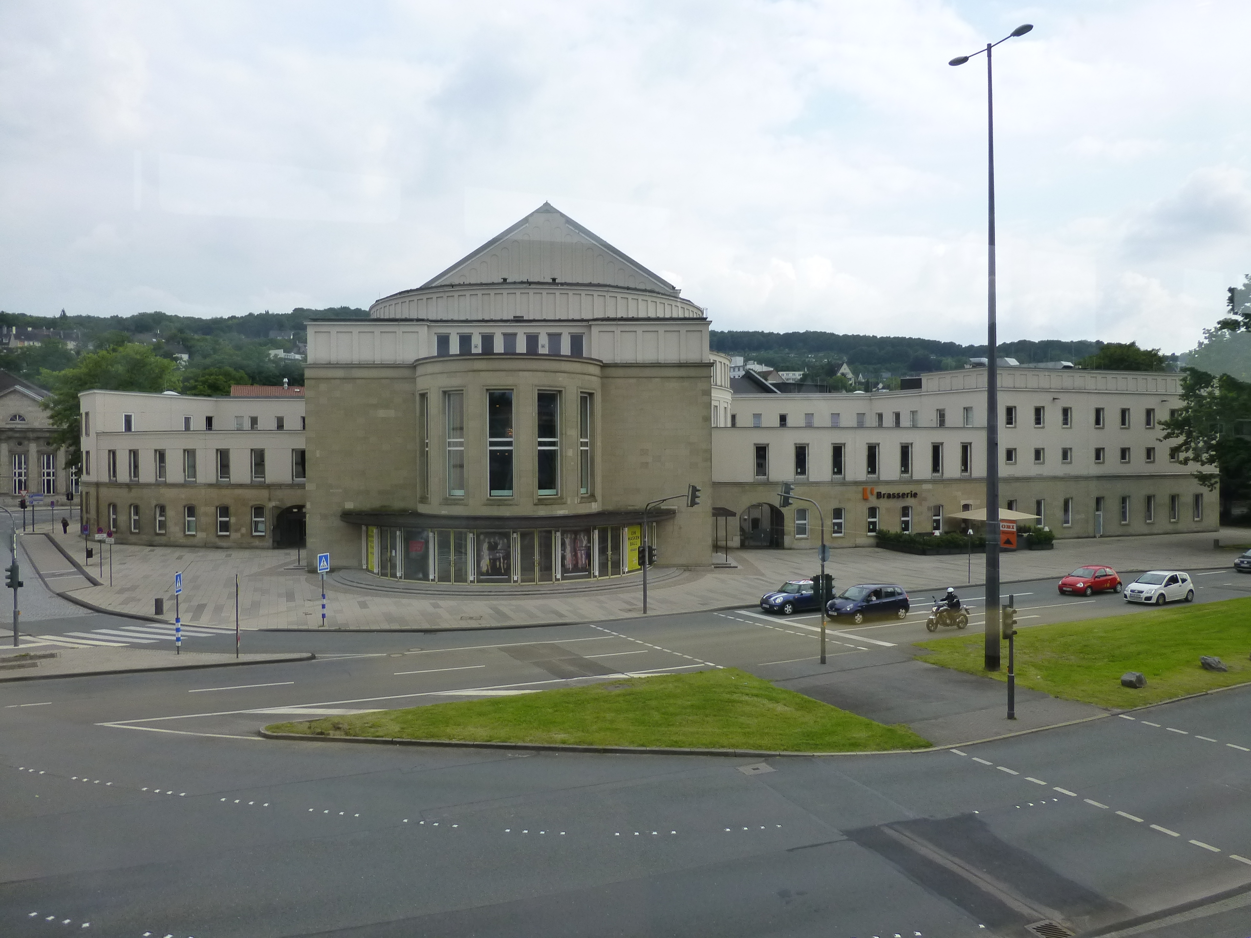 The action "We invite Samuel to Wuppertal".